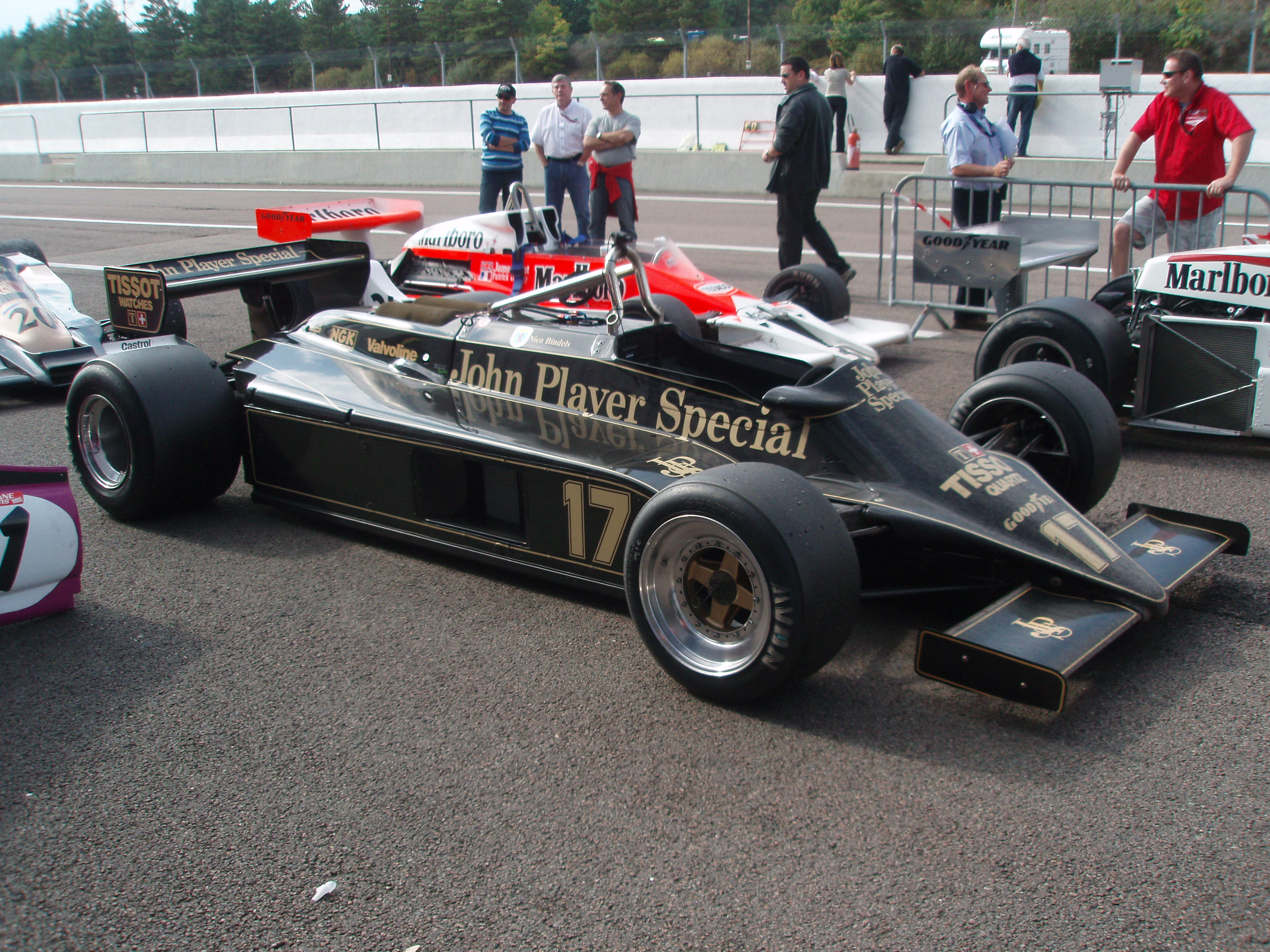 A Lotus 87 formula 1 in Dijon-Prenois' pitlane.